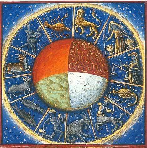 The four elements of the Earth with the twelve signs of the zodiac, from De Proprietatibus Rerum by Bartholomeus Anglicus, 1445-50 (vellum)